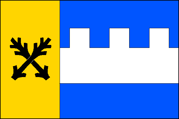 Municipal flag of Lipnice nad Sázavou village, Havlíčkův Brod District, Czech Republic.